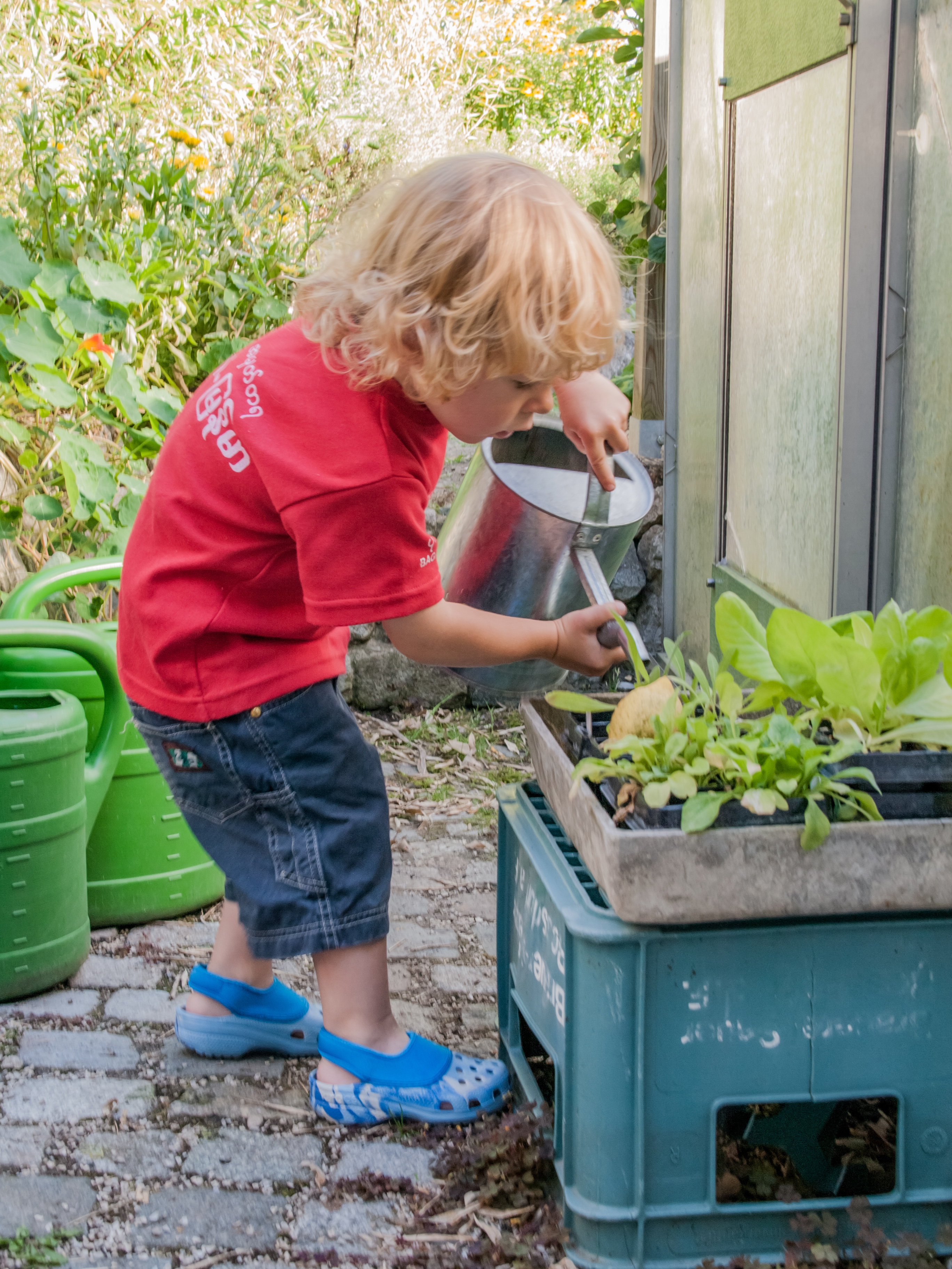 Child watering flowers